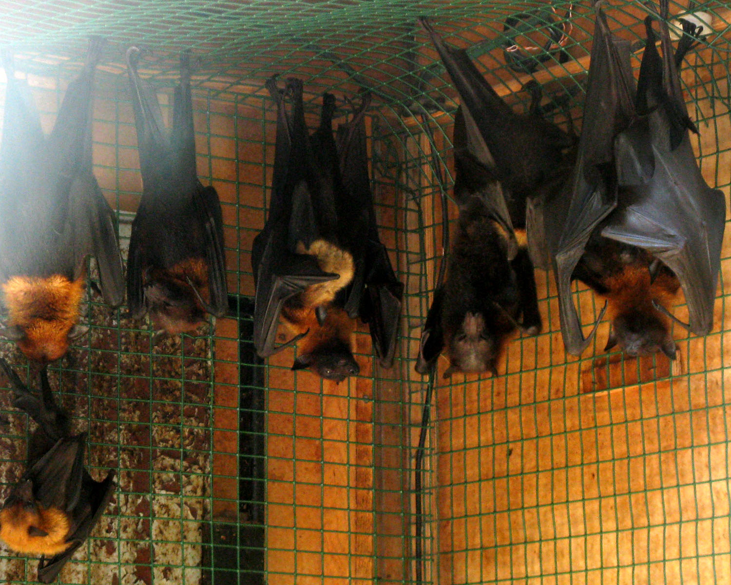 Pteropus conspicillatus at Ramat-Gan Safari, Israel